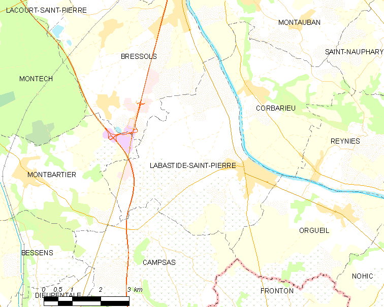 Map of French municipality Labastide-Saint-Pierre